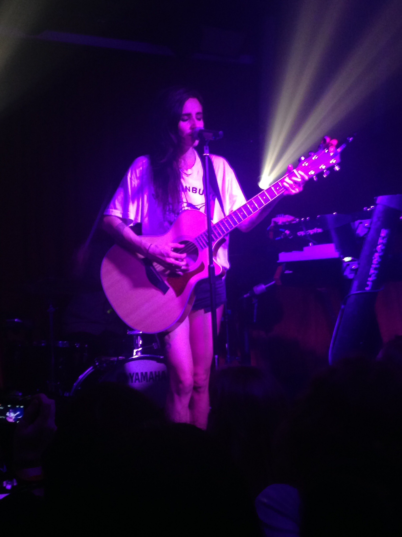 Lights performs in London, Hoxton Square Bar and Kitchen on the 15th March 2016.